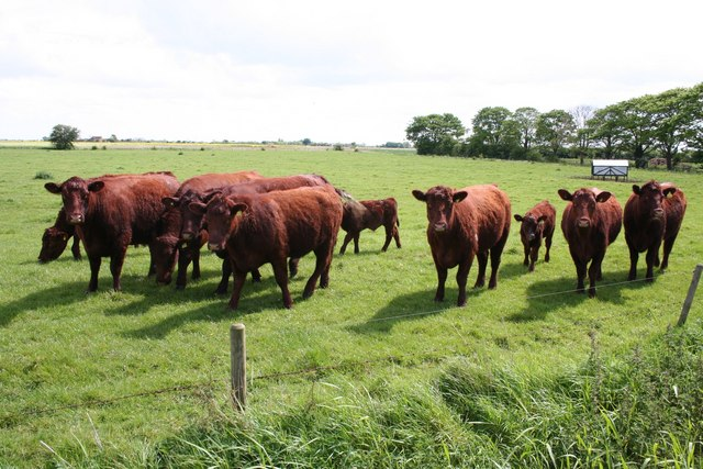 Lincoln Reds Cows and calves off Fen Lane near Eau Bridge Farm